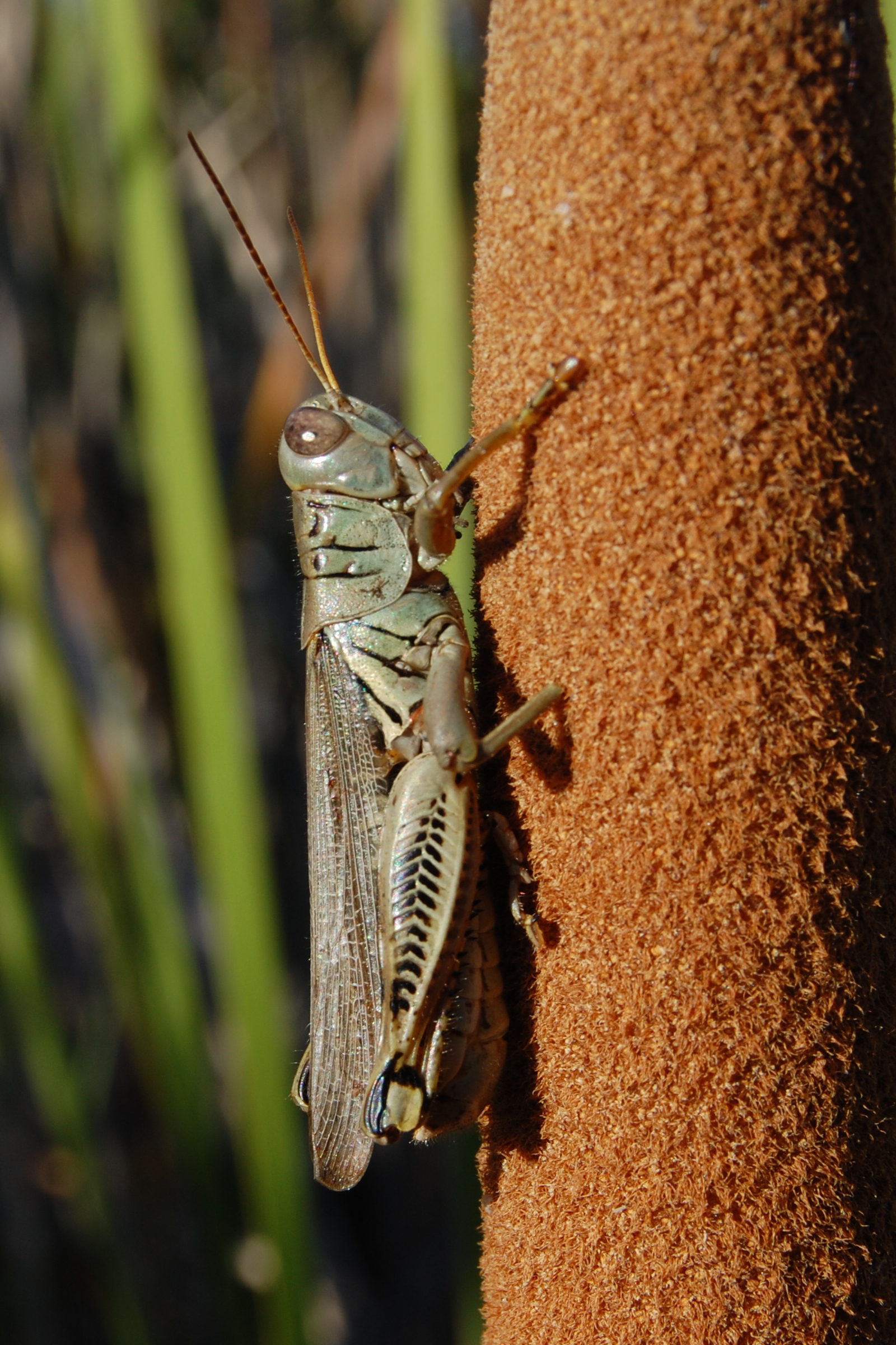 Differential Grasshopper. Male